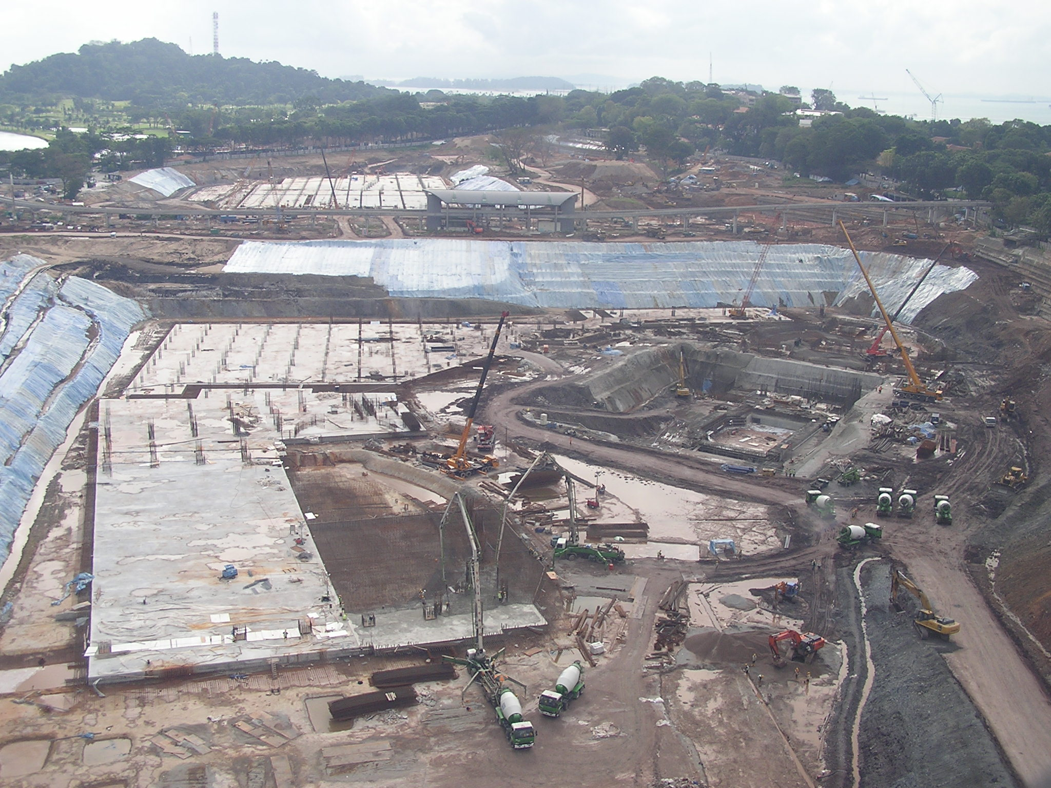 Resorts World Sentosa under construction, Singapore.